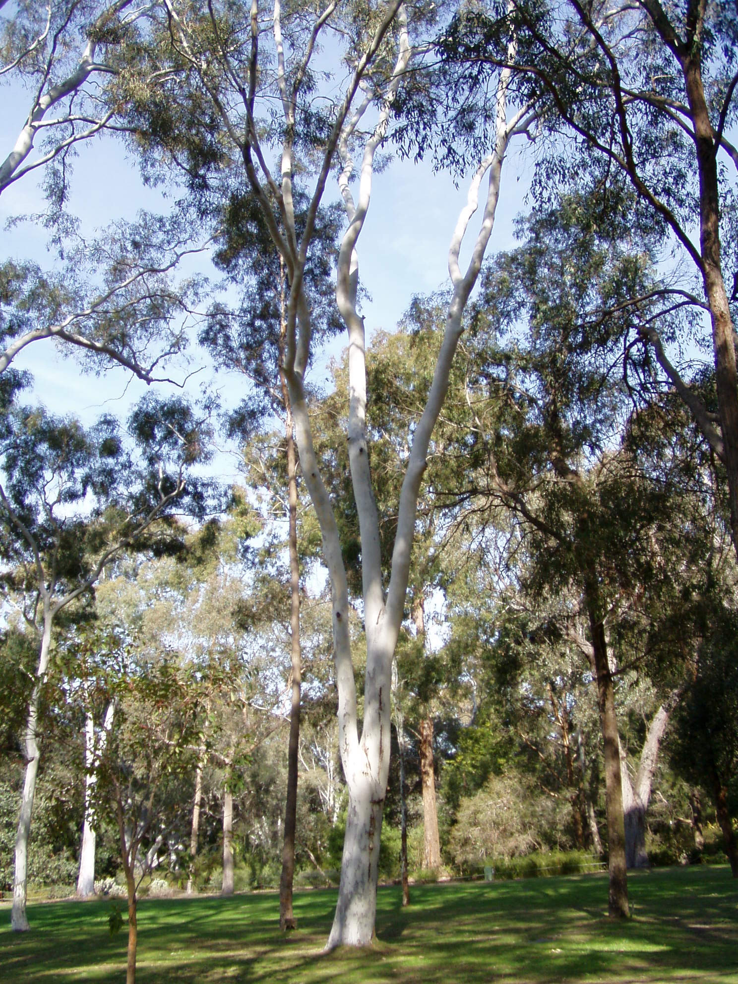 Description: Brittle Gum (Eucalyptus mannifera) Location: Australian National Botanic Gardens, Canberra, Australian Capital Territory, Australia Date: 2005-09-21 Source: picture taken by Danielle Langlois Licence: Released under GFDL and Creative Commons licenses by the photographer